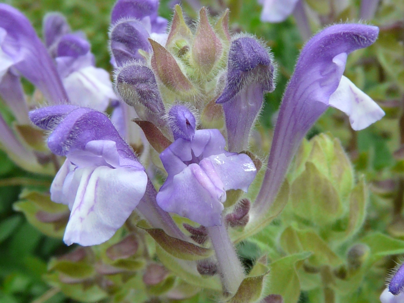 Close-up of Scutellaria alpina at Botanical Gardens Utrecht